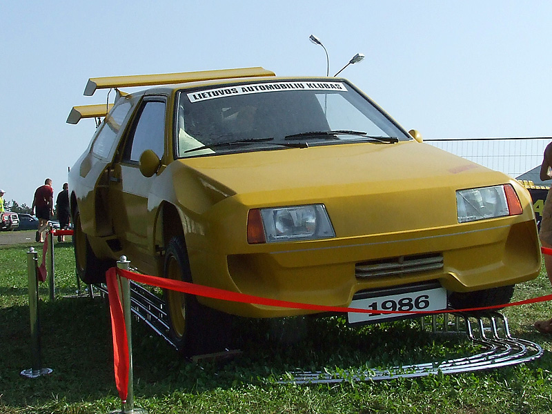 Lada EVA 1986. 300 Lakes Rally 2010, Lithuania.